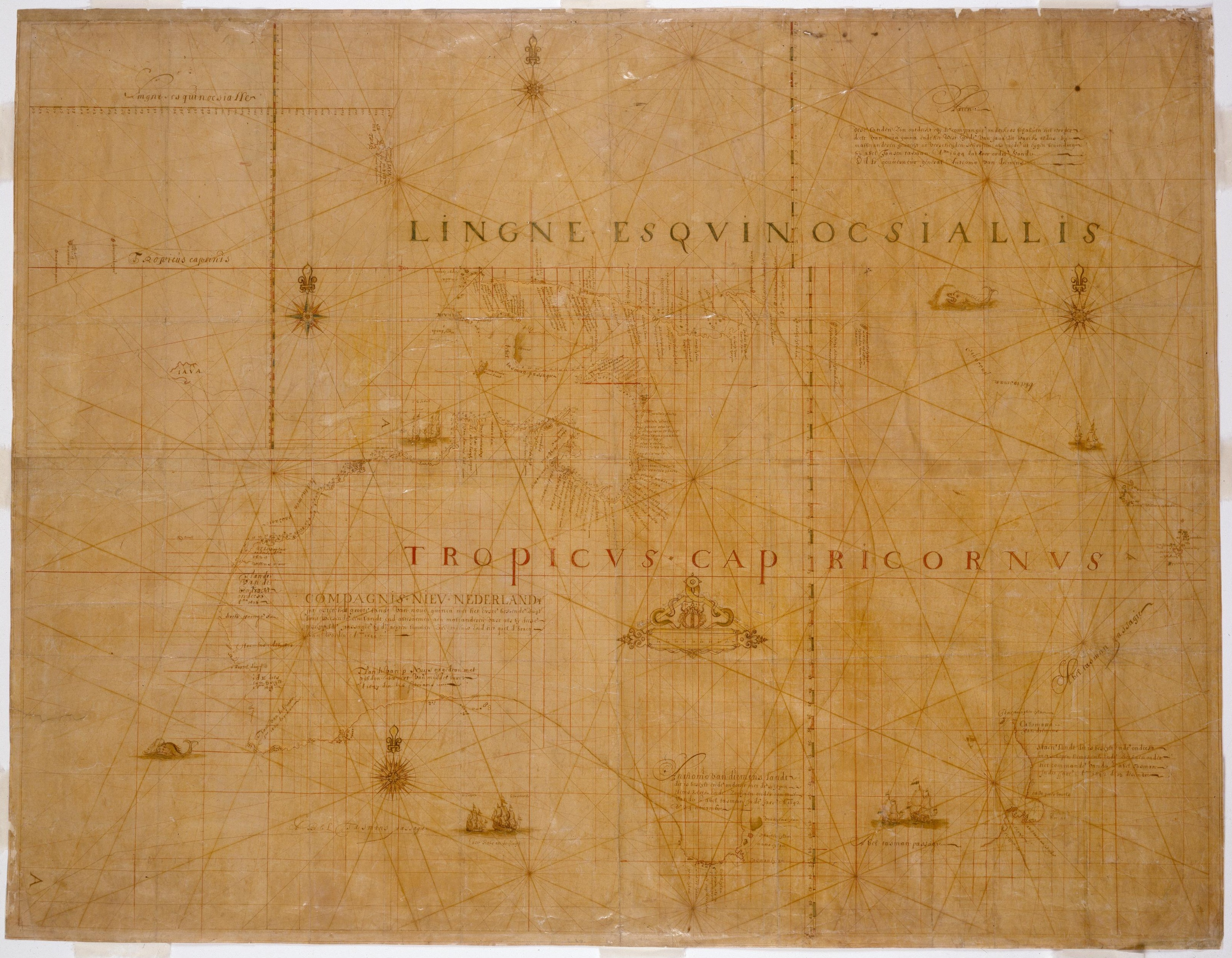 Contents 1 Title 1.1 Title translated 1.2 Also known as 2 Notes 3 Licensing Title Carten - Deze landen Zijn ontdeckt bij de compangie ontdeckers behaluen het norder deelt van noua guina ende het West Eynde van Java dit Warck aldus bij mallecanderen geuoecht ut verscheijden schriften als mede ut eijgen beuinding bij abel Jansen Tasman. Ano 1644 dat door order van de E.d.hr. gouuerneur general Anthonio van diemens Title translated Map - These lands were discovered by the Company's explorers except for the northern part of New Guinea and the west end of Java. This work thus put together from different writings as well as from personal observation by Abel Jansen Tasman, A.D. 1644, by order of His Excellency the Governor-General Antonio van Diemen. Also known as Bonaparte Tasman map; Tasman map 1644. Notes 100 German or geographical miles on the graphic scale measures 6,8 cm.; 15 German miles equals one degree of latitude. Ornate manuscript map on Japanese paper bought in 1891 by Prince Roland Bonaparte, and presented to the Mitchell Library by the Princess George of Greece in 1931. Now thought to be neither by Tasman nor from 1644, this map is important for being the only first-hand record of Tasman's route in 1644. Includes inset with Mauritius, Java and Sumatra on scale ca. 1:21 568 600 showing the course of the Heemskerck and the Zeehaen in 1642 from Batavia to Mauritius and further south. Also available in a digitised form via the Internet at This item has been included in the Nelson Meers Foundation Benefaction, 2003.